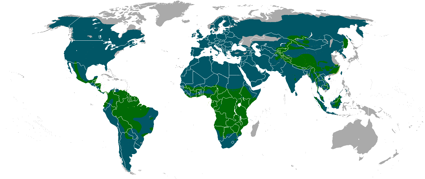 Range of Feliformia. Blue is the range of Felinae, green is the range of Pantherinae.